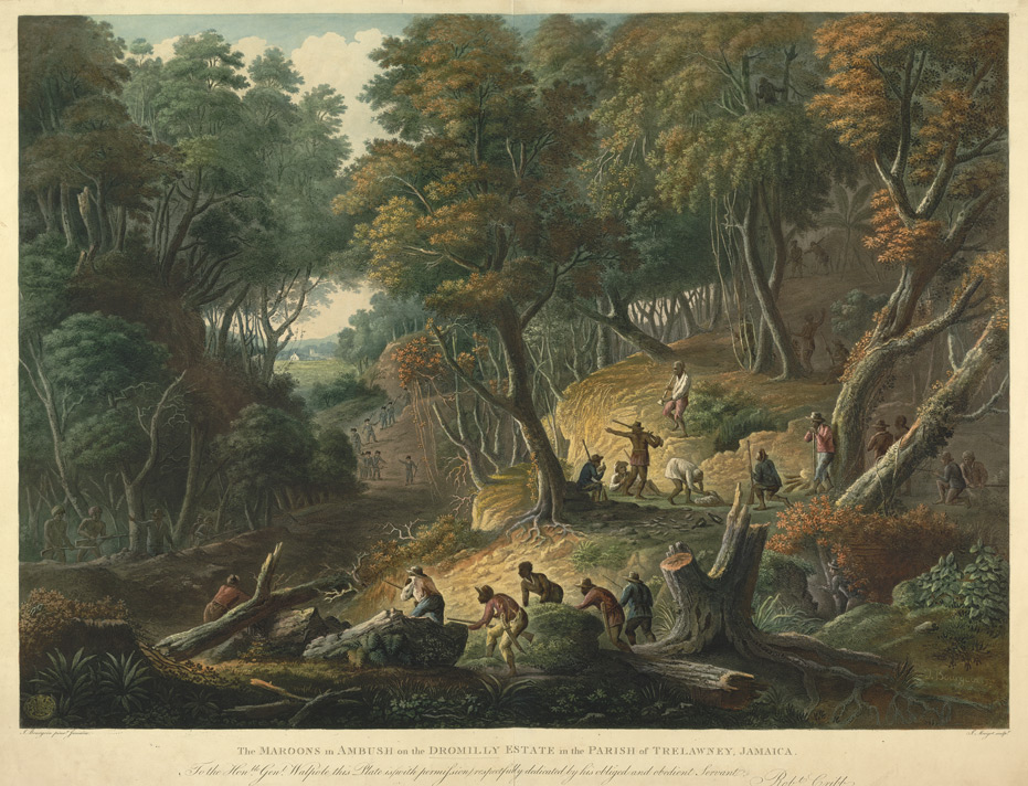 The Maroons In Ambush On The Dromilly Estate In The Parish Of Trelawney, Jamaica. An aquatint (from a painting by F. J. Bourgoin) depicting British troops caught in an ambush by a group of Maroons in 1795.